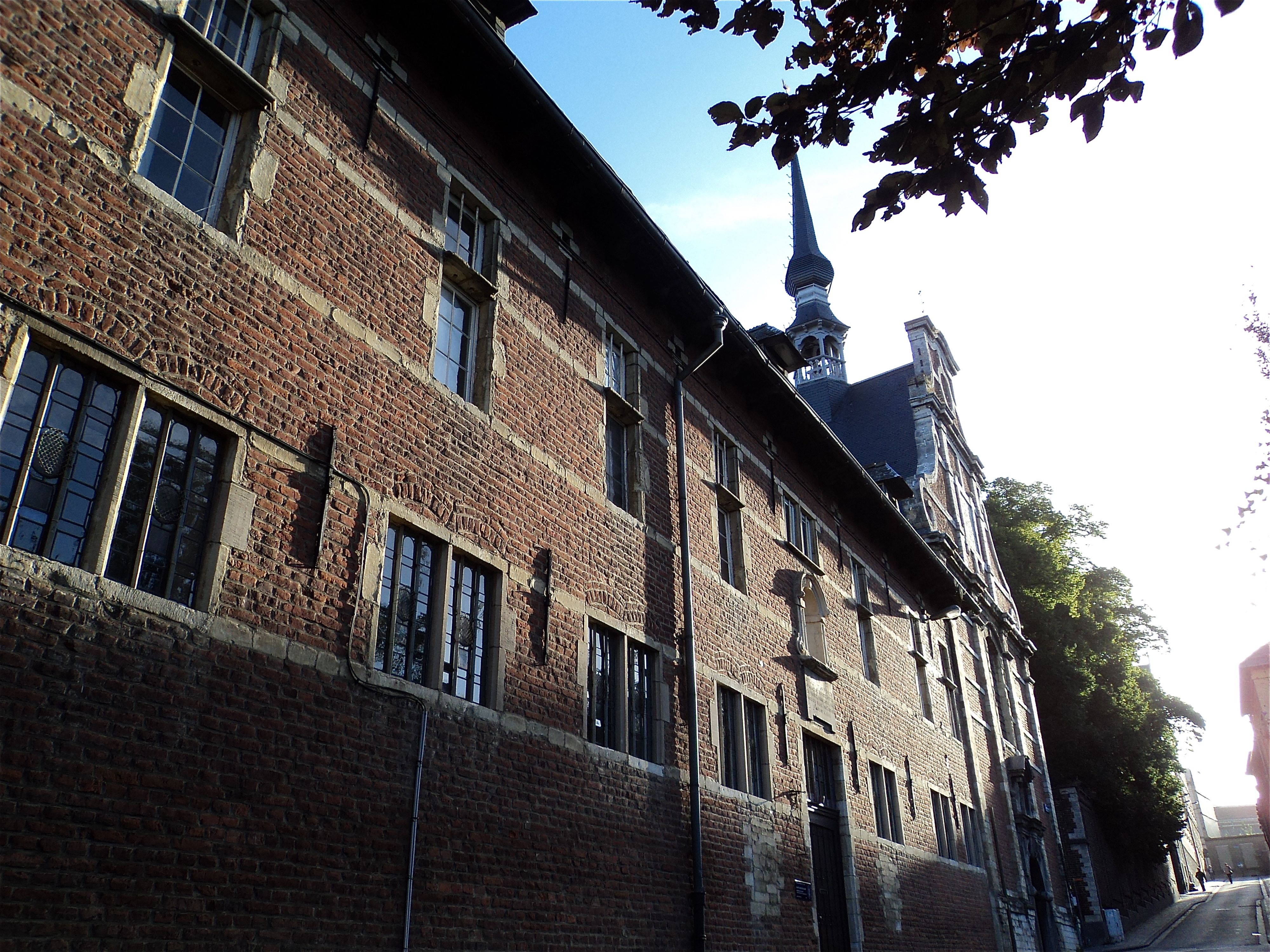 Convent of the Sisters of Nazareth, Zwartzustersstraat 2, Leuven, Belgium